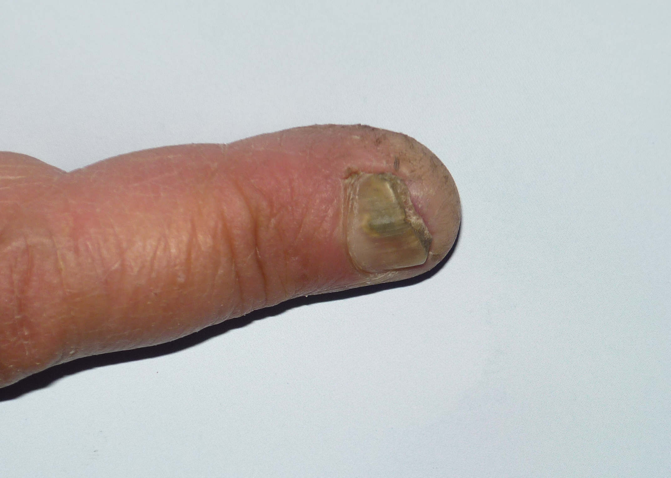 Onychomycosis: 55 year old male pacient.